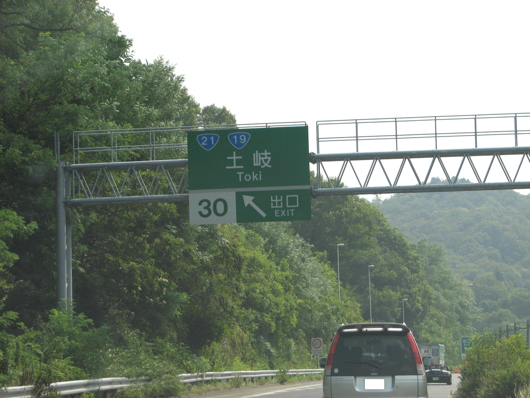 Toki IC